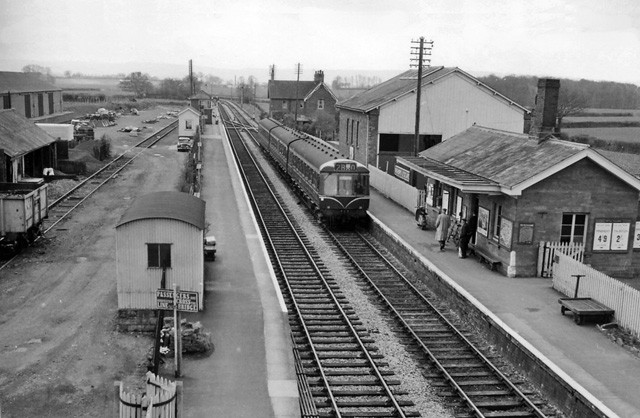 Bishop's Lydeard Station. View SE, towards Norton Fitzwarren and Taunton; ex-GWR Norton Fitzwarren - Minehead branch. Branch closed completely 4/1/71, but restored by West Somerset Railway in stages 28/3/76 - 9/6/79. Although Bishop's Lydeard has been the eastern terminus of the WSR, it has retained the track making a connection with National Rail at Norton Fitzwarren and has recently opened its own platform there. In the photograph a BR Diesel multiple unit train from Taunton to Minehead is seen entering.